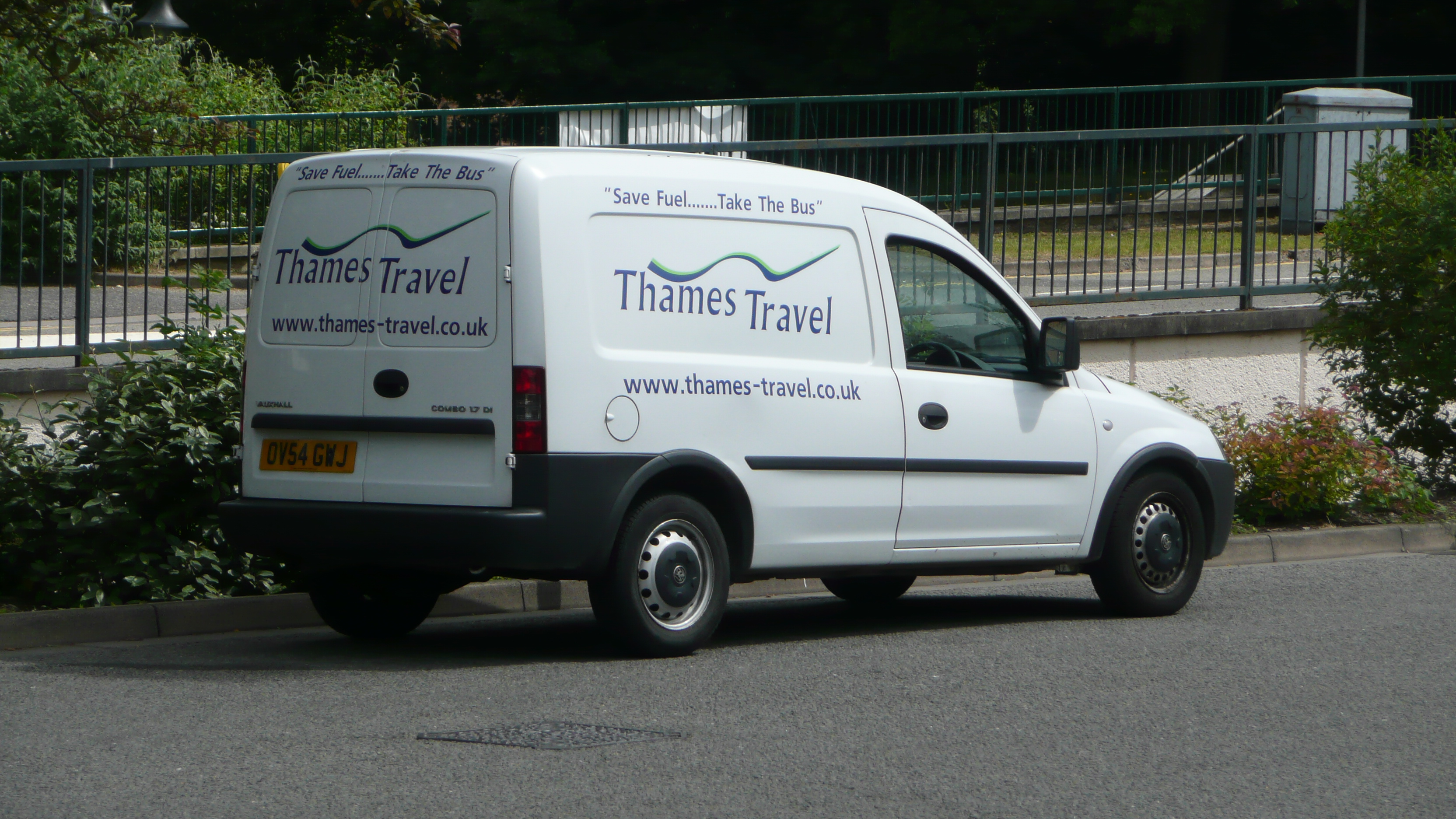 Thames Travel OV54 GWJ, a Vauxhall Combo van, in Bracknell bus station, Bracknell, Berkshire. It is used as a fleet support vehicle and staff van.